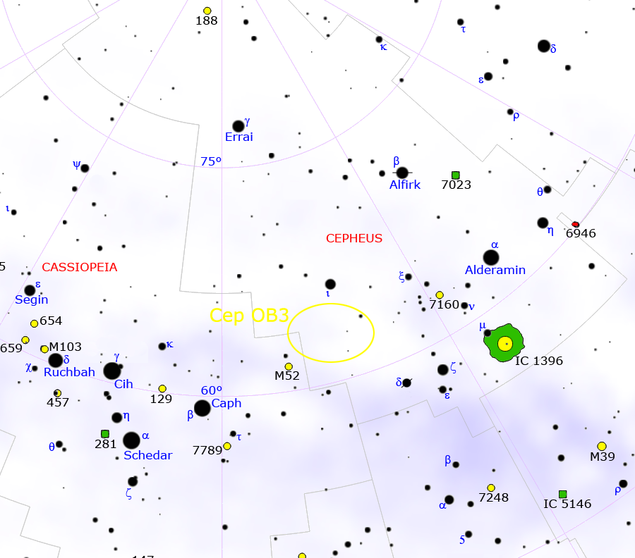 Map of Cepheus OB3